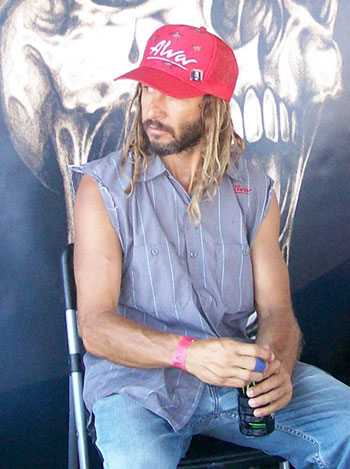 Tony Alva, greeting fans and signing.